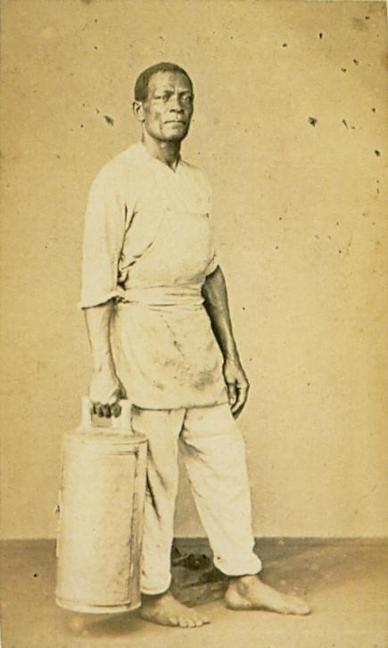 Brazilian slave in the province of Rio de Janeiro